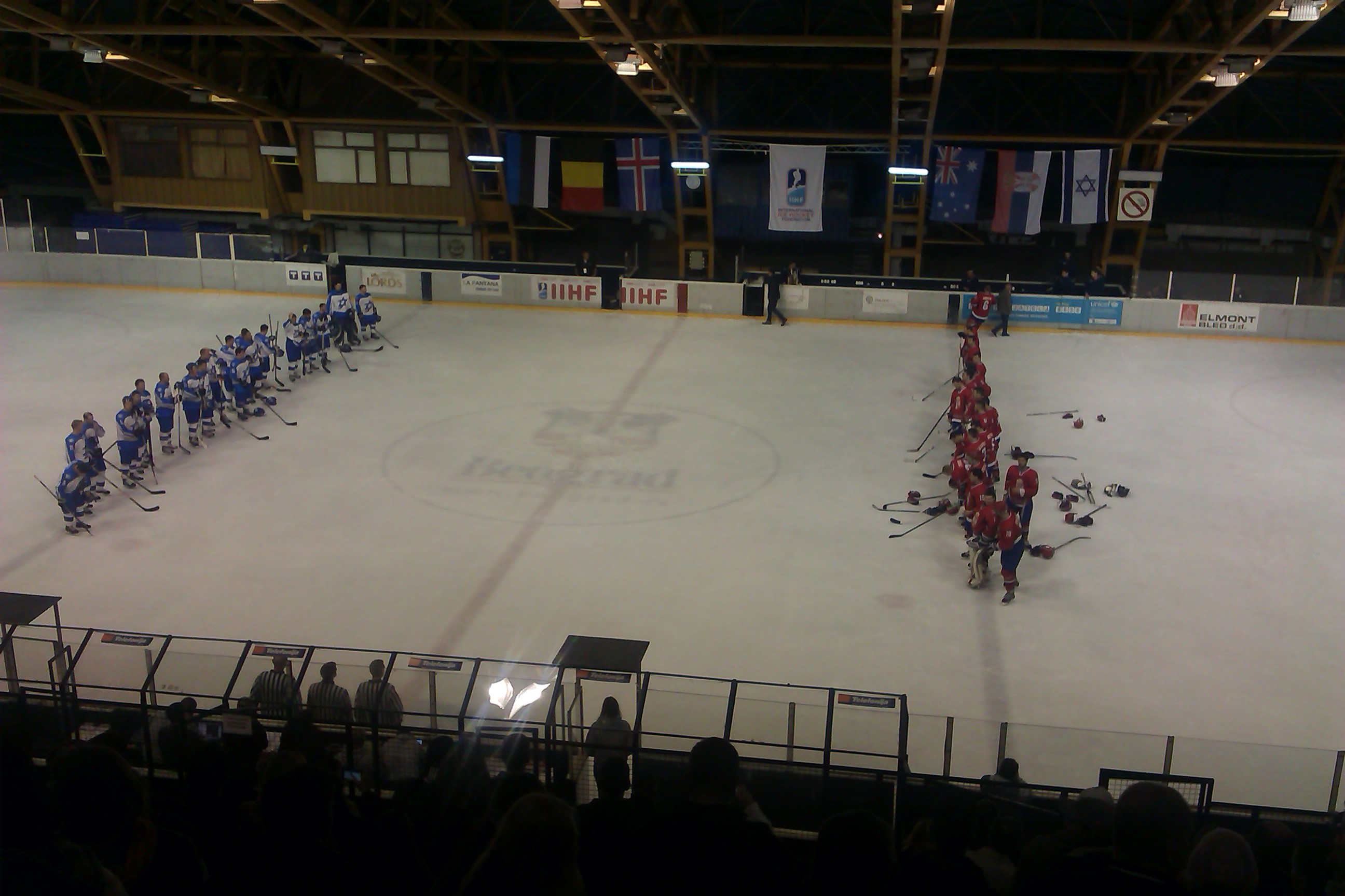 2014 IIHF World Championship Division II Serbia - Israel 10:6 in Belgrade 10. april 2014Српски (ћирилица): Светско првенство у хокеју на леду 2014 — Дивизија II, Србија - Израел 10:6 у Београду 10. априла 2014